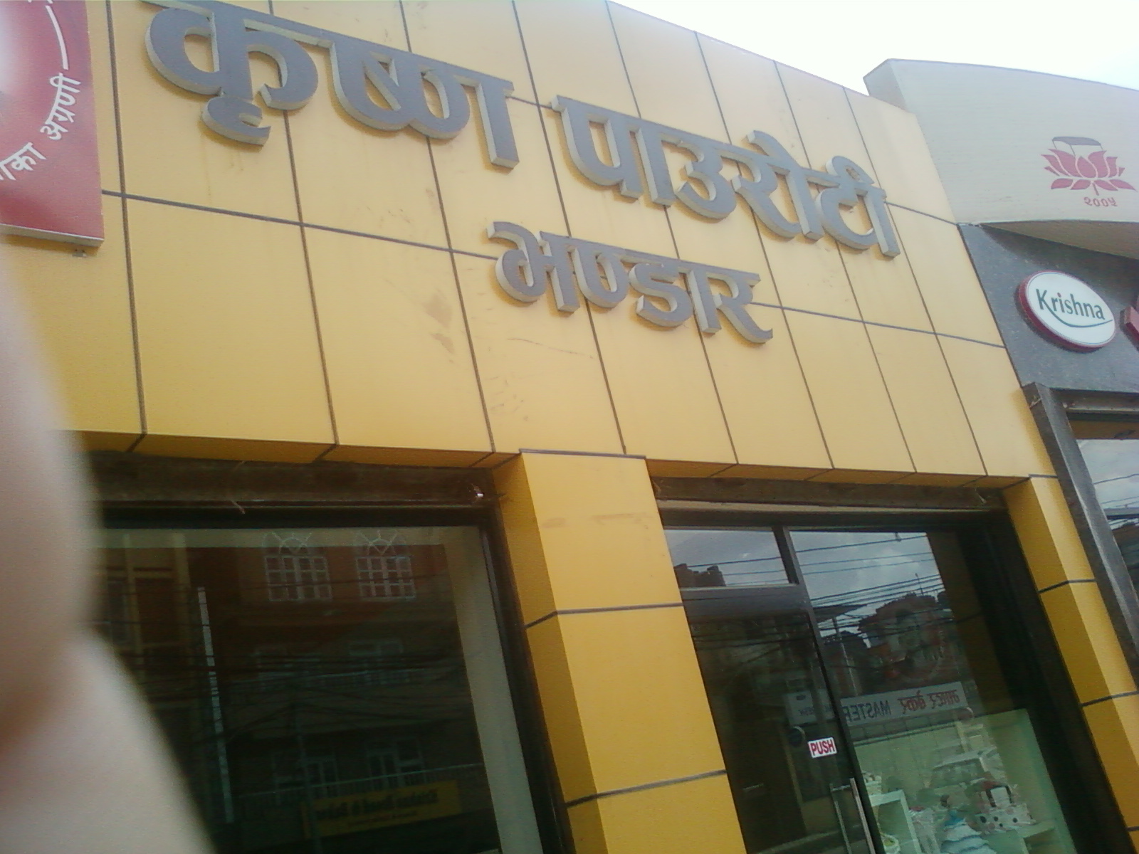 Krishna pauroti